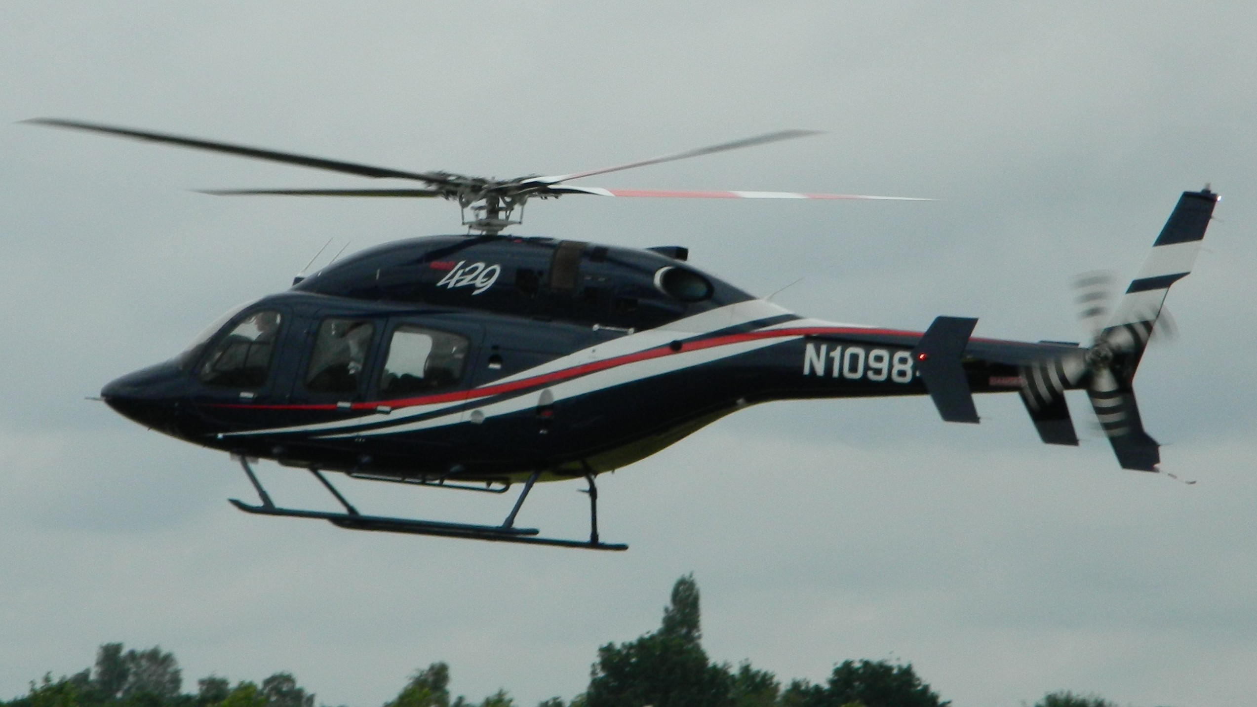 N10984 is a 2010-built Bell 429 helicopter serial number 57003 and owned by Bell Helicopter Textron, landing at Farnborough during the 2012 Farnborough International Airshow